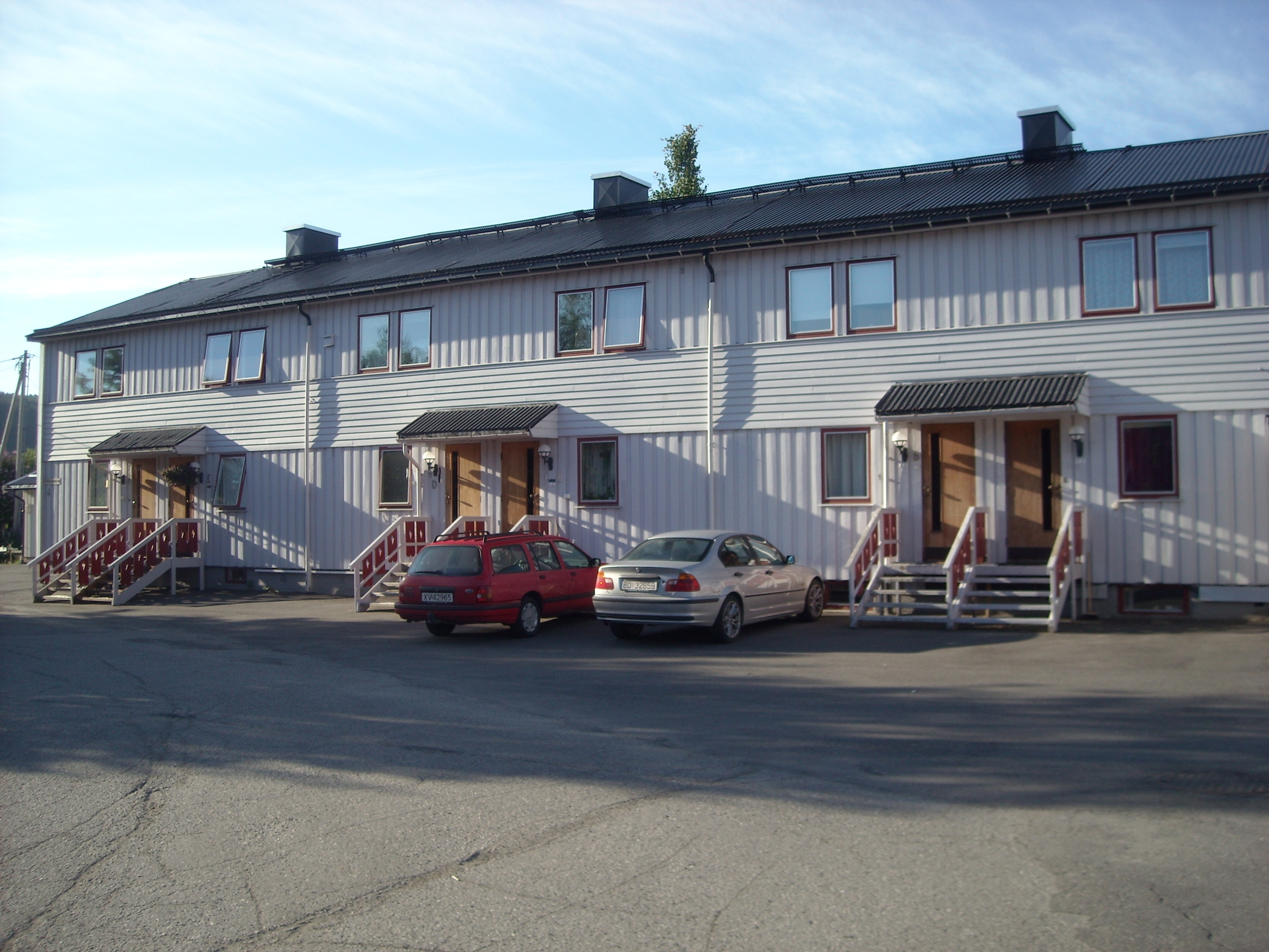 Olderskog, Mosjøen, Norway.